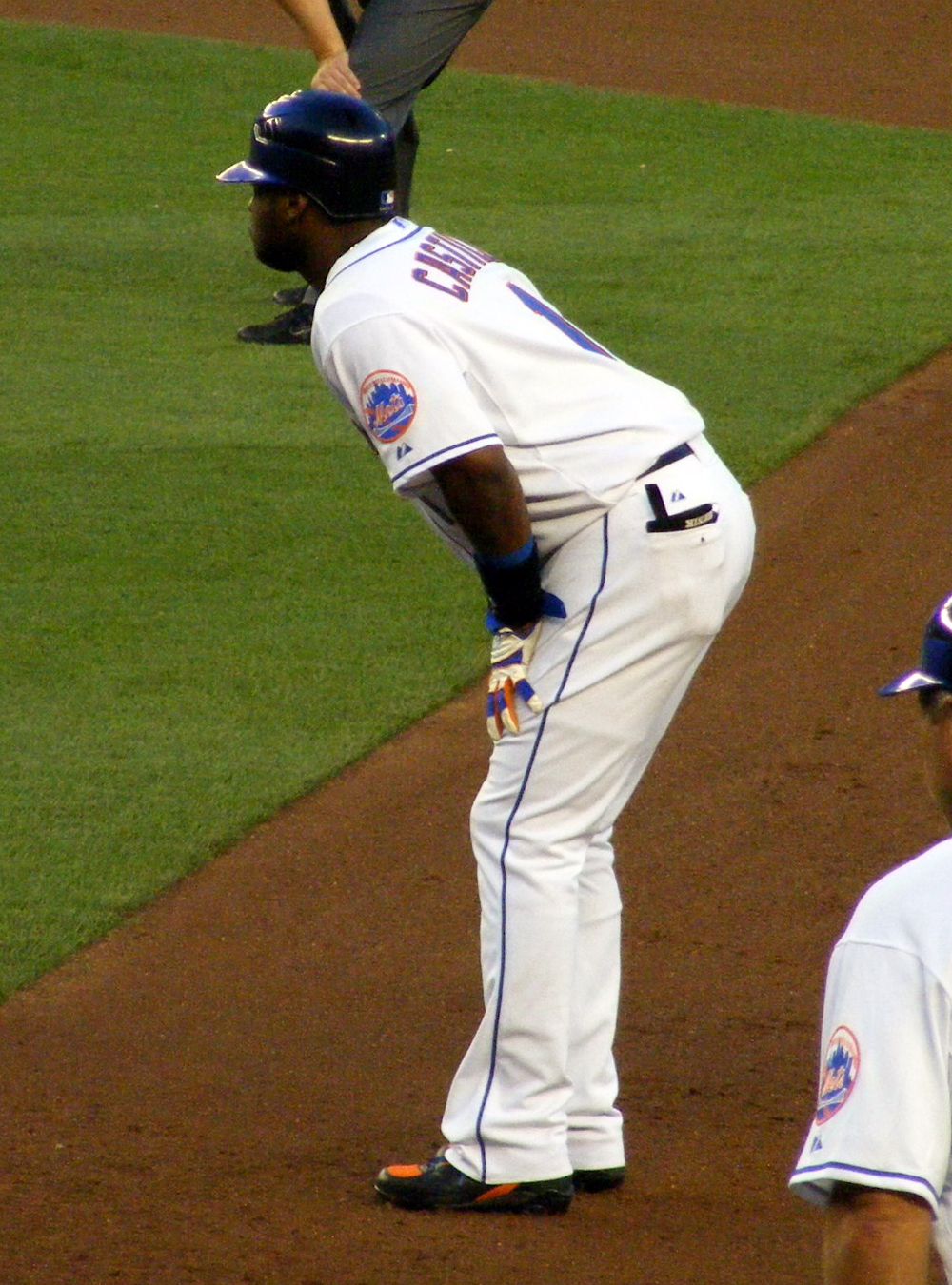 Luis Castillo with the New York Mets.